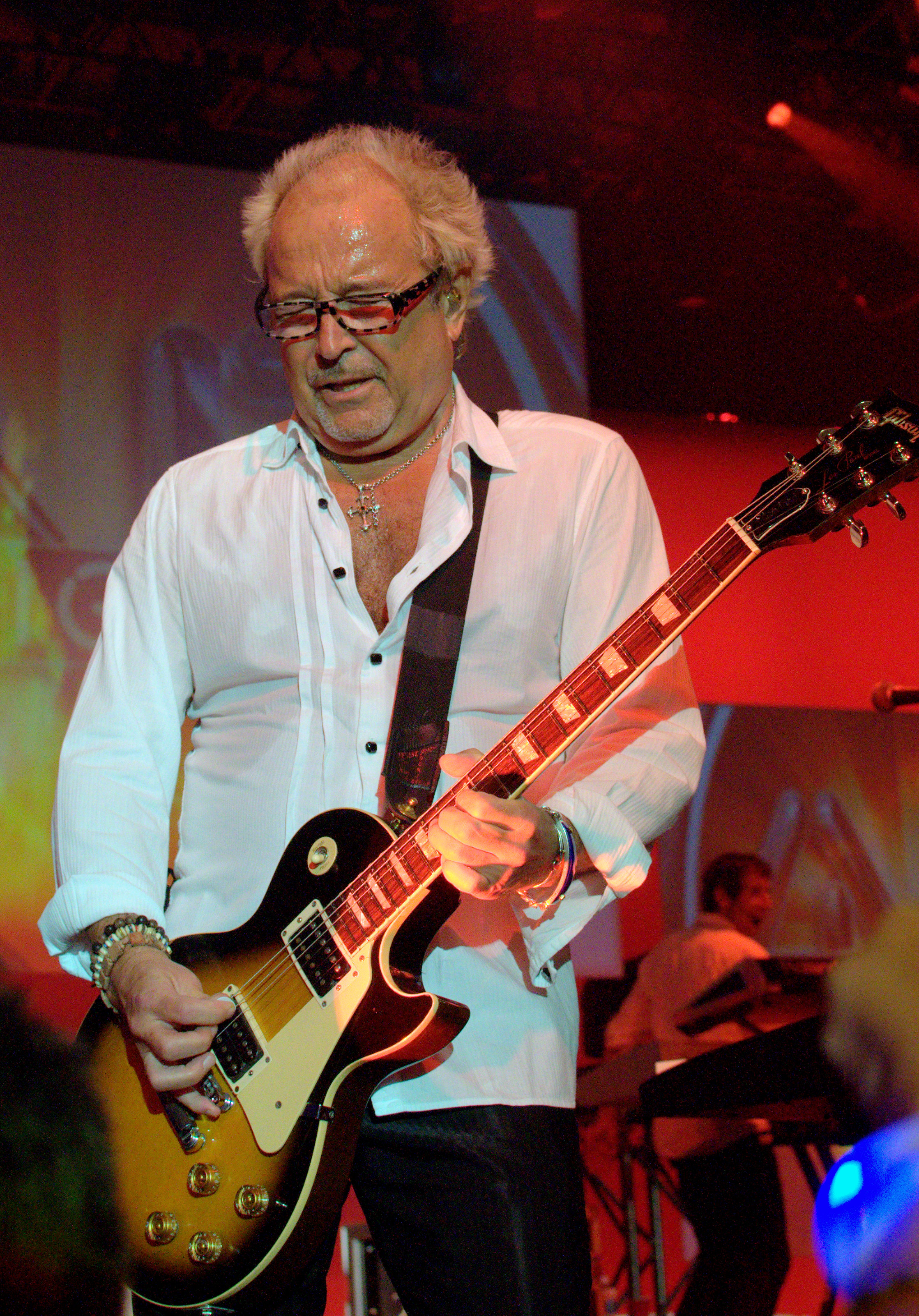 Mick Jones performing with Foreigner at VMWorld, San Francisco, 9/2/2009